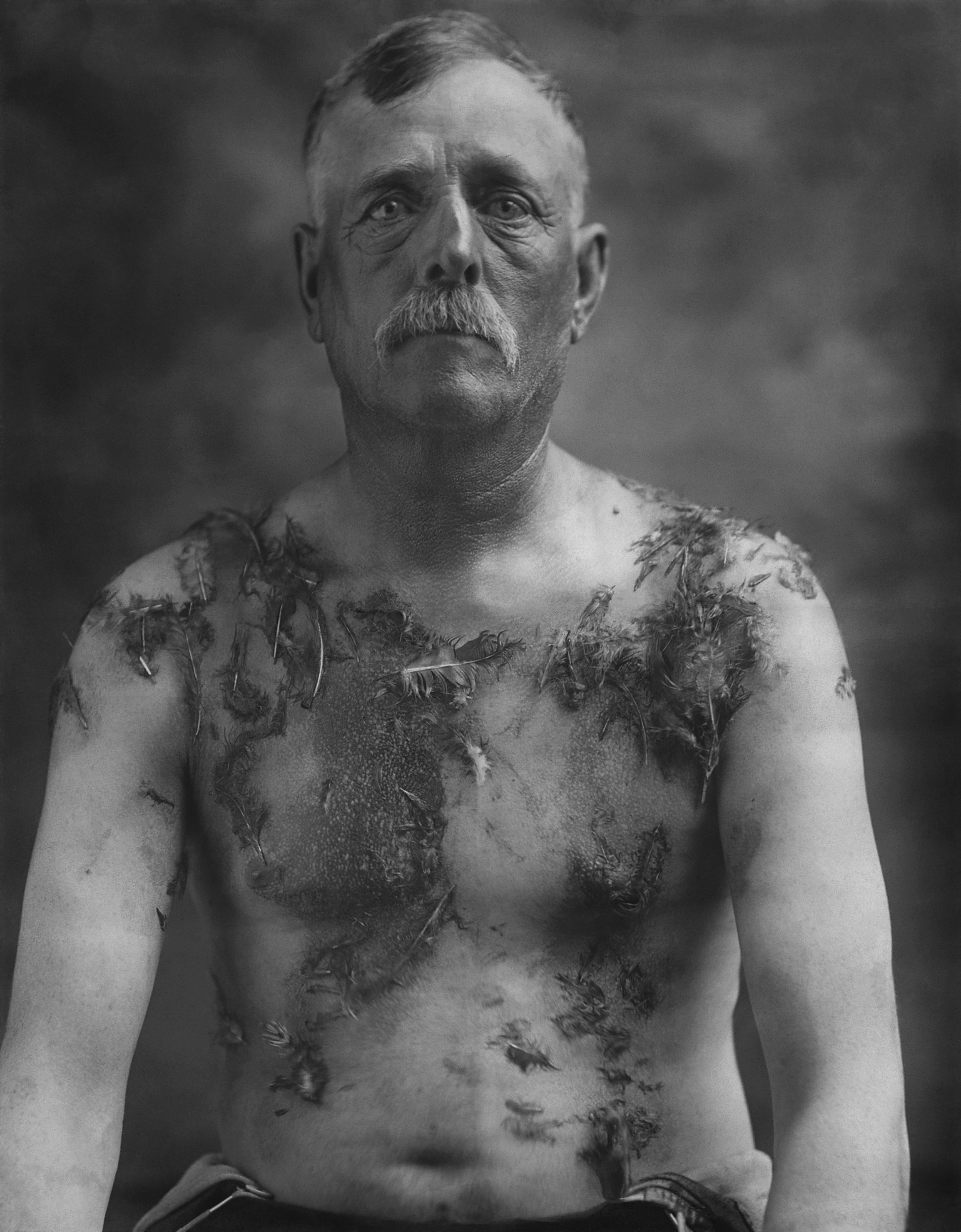 On August 19, 1918, amidst anti-German sentiment during World War I, German-American farmer John Meints (misspelled Meintz) was taken from his home in Luverne, Minnesota and driven to the border with South-Dakota. There, masked locals whipped him, threatened to shoot him, and tarred-and-feathered him, forcing him to cross the border and threatening to hang him if he returned. Meints named 32 of the men involved in a lawsuit, but they were acquitted, with the judge instructing the jury that the evidence strongly supported his disloyalty. Meints later won an appeal and settled out of court in 1922. [1] Scope and content: Meintz was tarred and feathered for not supporting war bond drives. Front and rear views, showing feathers stuck on his body.